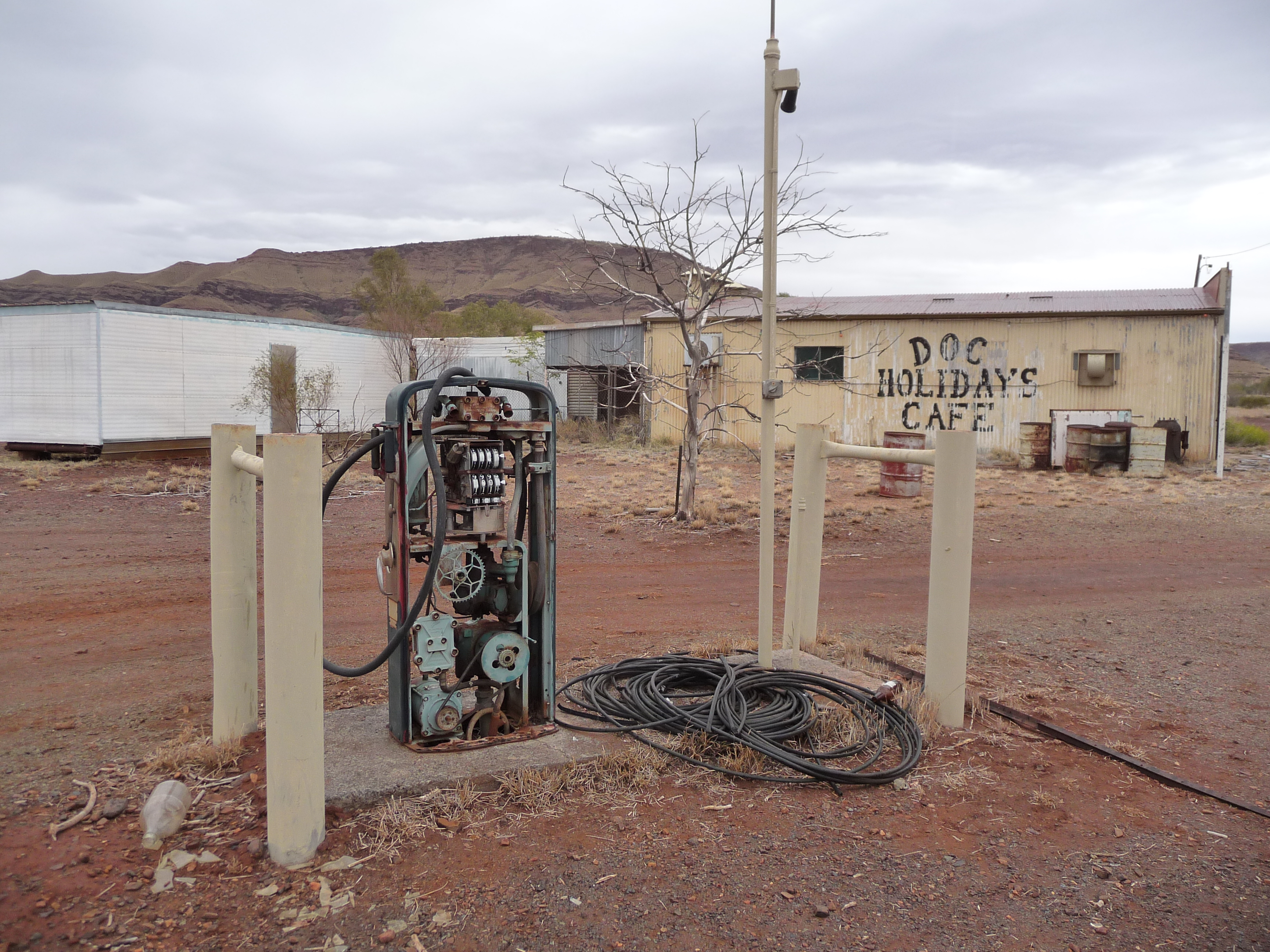 Doc Holiday's Cafe, Wittenoom WA